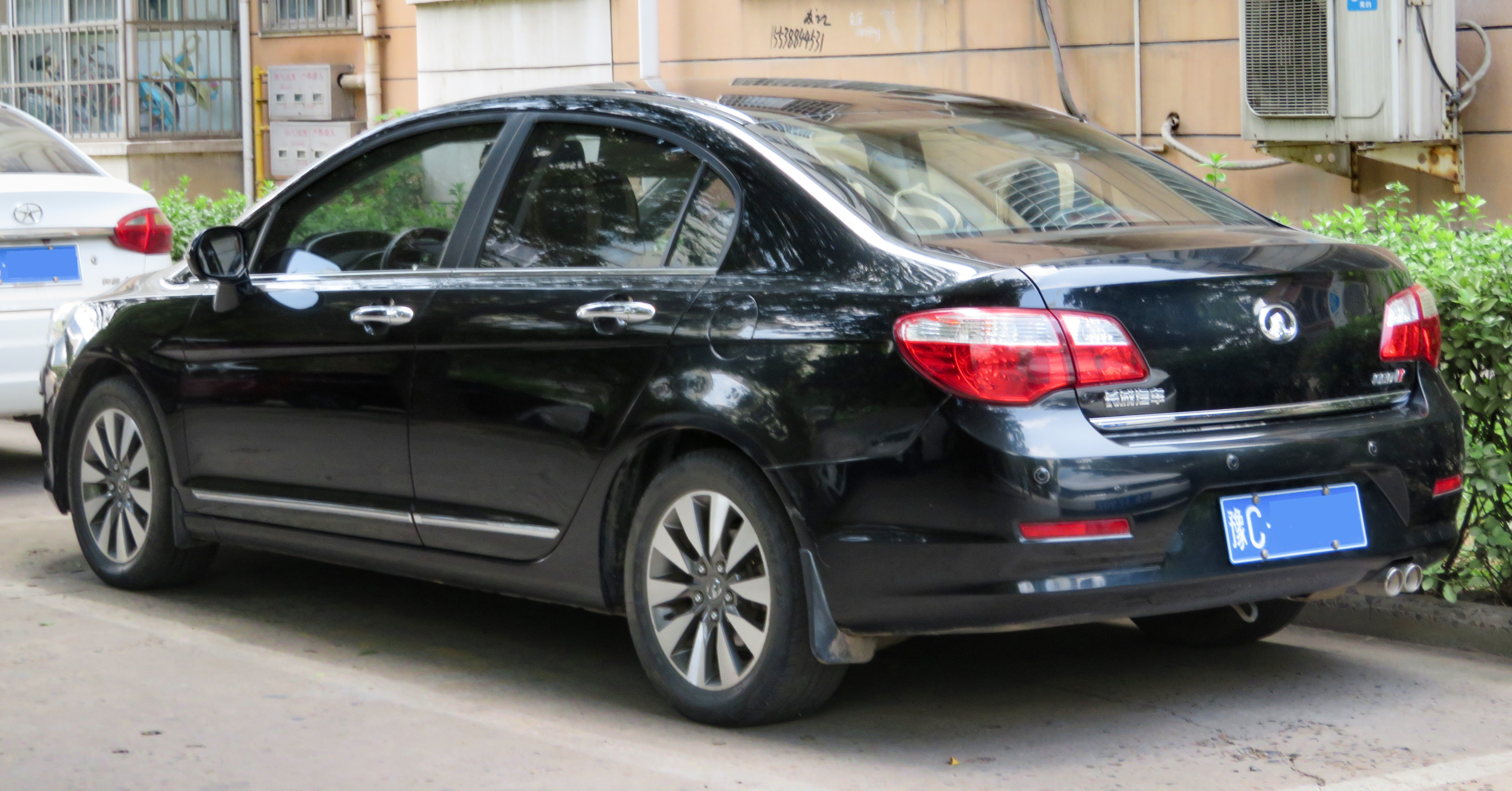 A 2014 Great Wall Voleex C50T photographed in Xigong District, Luoyang, Henan province, China